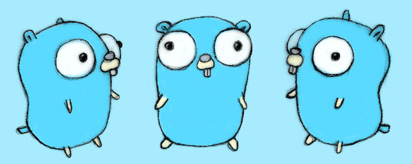 The Go Gopher